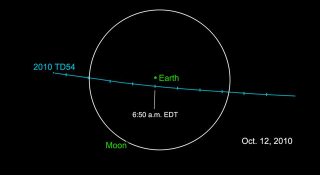 Orbit of asteroid-like body 2010 TD54